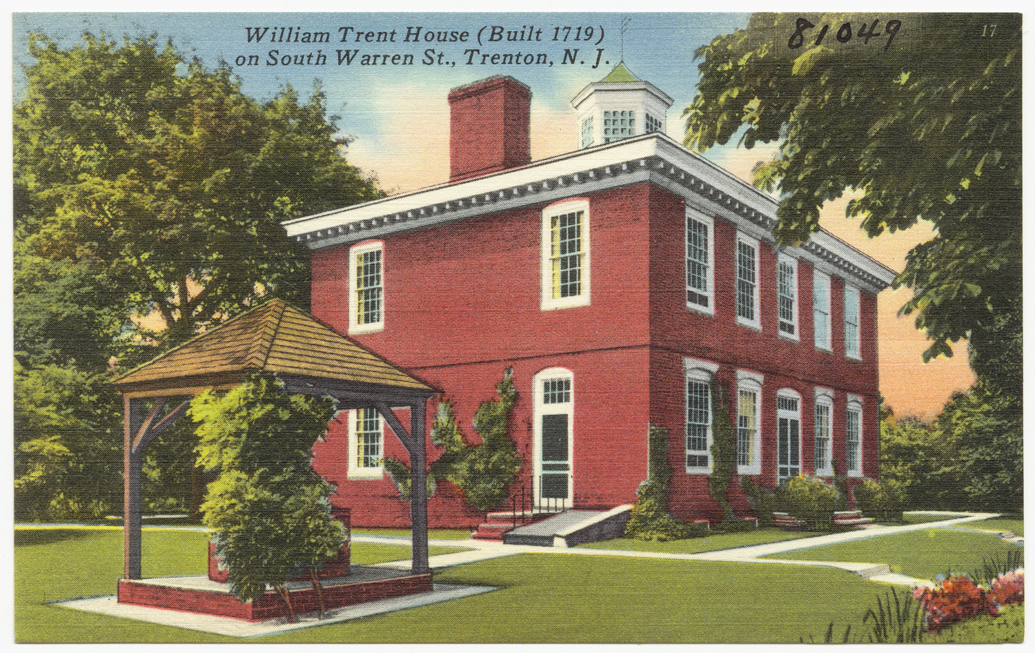 File name: 06_10_012393 Title: William Trent House (Built 1719) on South Warren St., Trenton. N. J. Date issued: 1930 - 1945 (approximate) Physical description: 1 print (postcard) : linen texture, color ; 3 1/2 x 5 1/2 in. Genre: Postcards Subject: Historic buildings Notes: Title from item. Collection: The Tichnor Brothers Collection Location: Boston Public Library, Print Department Rights: No known restrictions